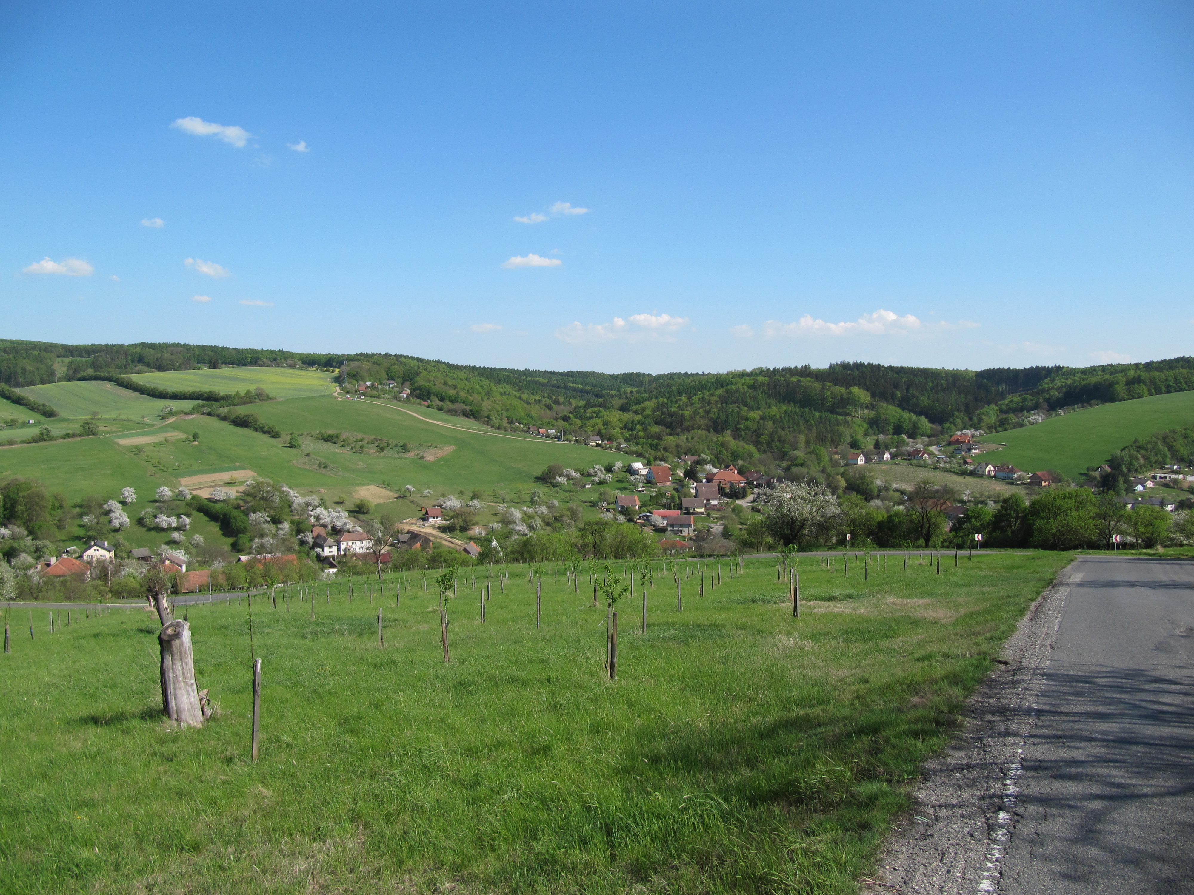 Bohuslavice u Zlína in Zlín District, Czech Republic. General view.